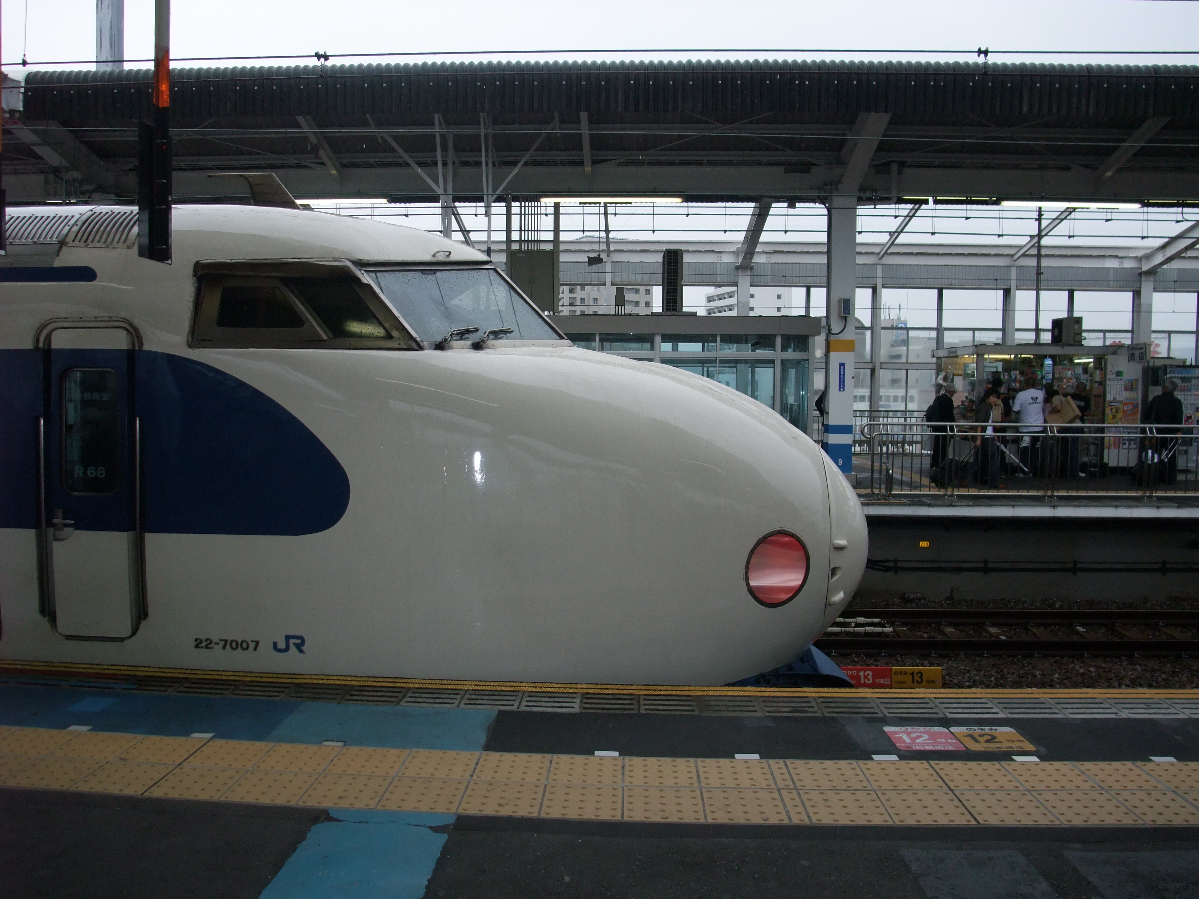 West Japan Railway Company , Shinkansen type 0 frontnose.